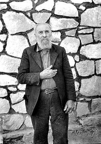 Original caption: Uncle Geo W. Coe, of Glencoe, NM, with his missing finger. He lost this finger in the Blazer's Mill fight in 1878. In which Dick Brewer and Andrew L. (Buck-shot) were killed. Park: White Sands NM